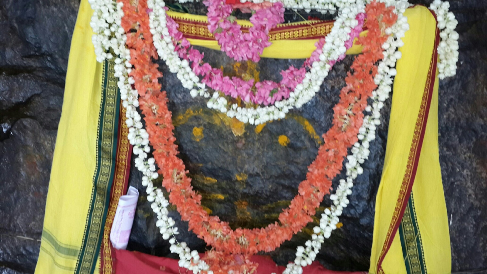 Abaya Hastha Swayambu Sri Lakshmi Narasinha Swamy